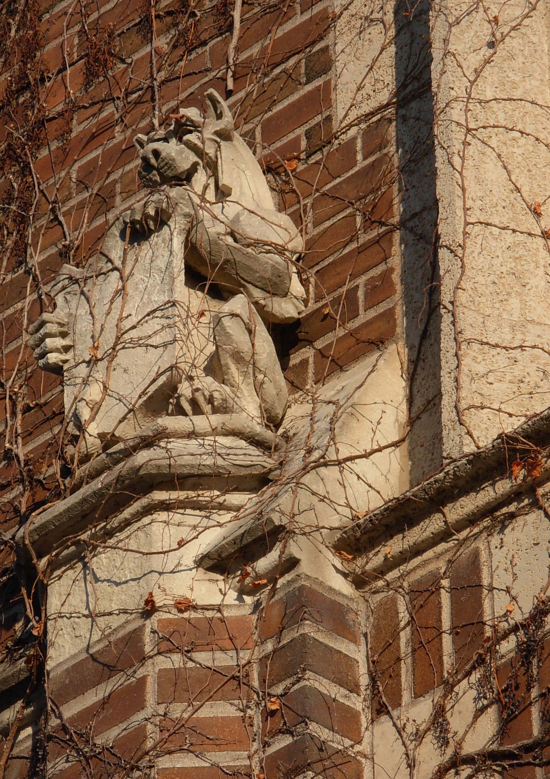 Architectural chimera above an entrance to Somsen Hall at Winona State University in Winona, Minnesota.